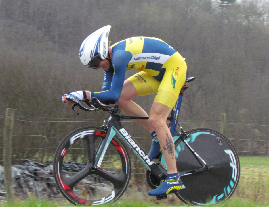 Gustav Larsson at the Prologue of Paris-Nice 2012